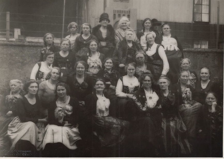 Cropped version of File:Kvenréttindafélag Íslands.jpg